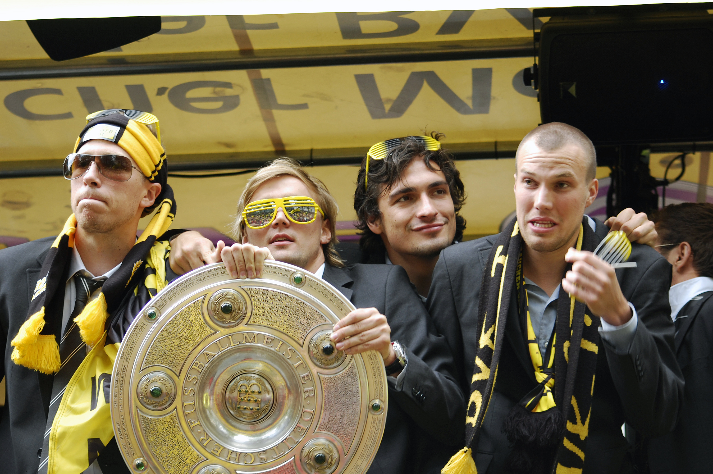 From Left to Right: Marco Stiepermann, Marcel Schmelzer, Mats Hummels and Kevin Großkreutz at Borussia Dortmund's Championship Celebration 2011.